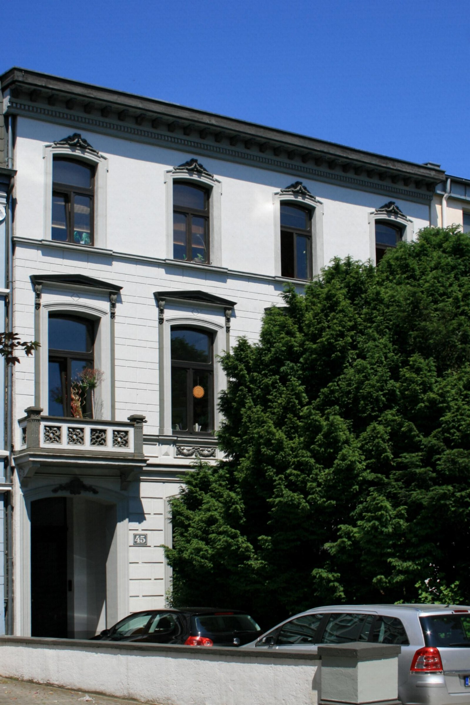 Cultural heritage monument No. R 011 in Mönchengladbach